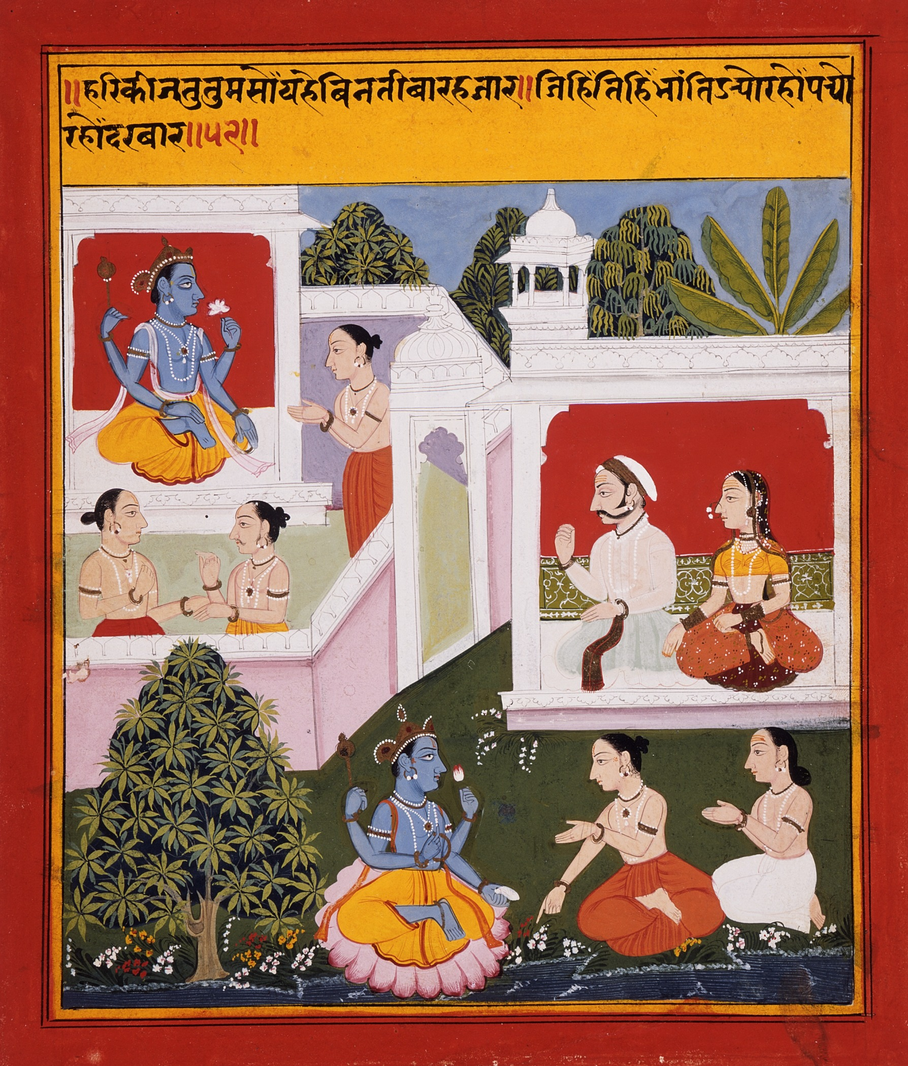 India, Rajasthan, Mewar, Udaipur, 1719-1720 Drawings; watercolors Opaque watercolor and gold on paper Gift of the Felix and Helen Juda Foundation (M.70.38.2) South and Southeast Asian Art